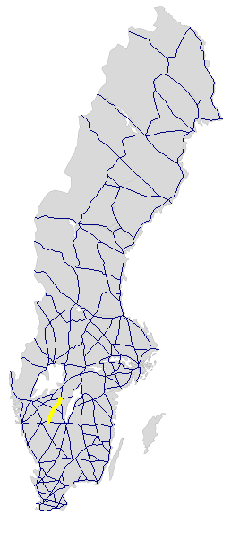 Map of Swedish riksväg (road) 46